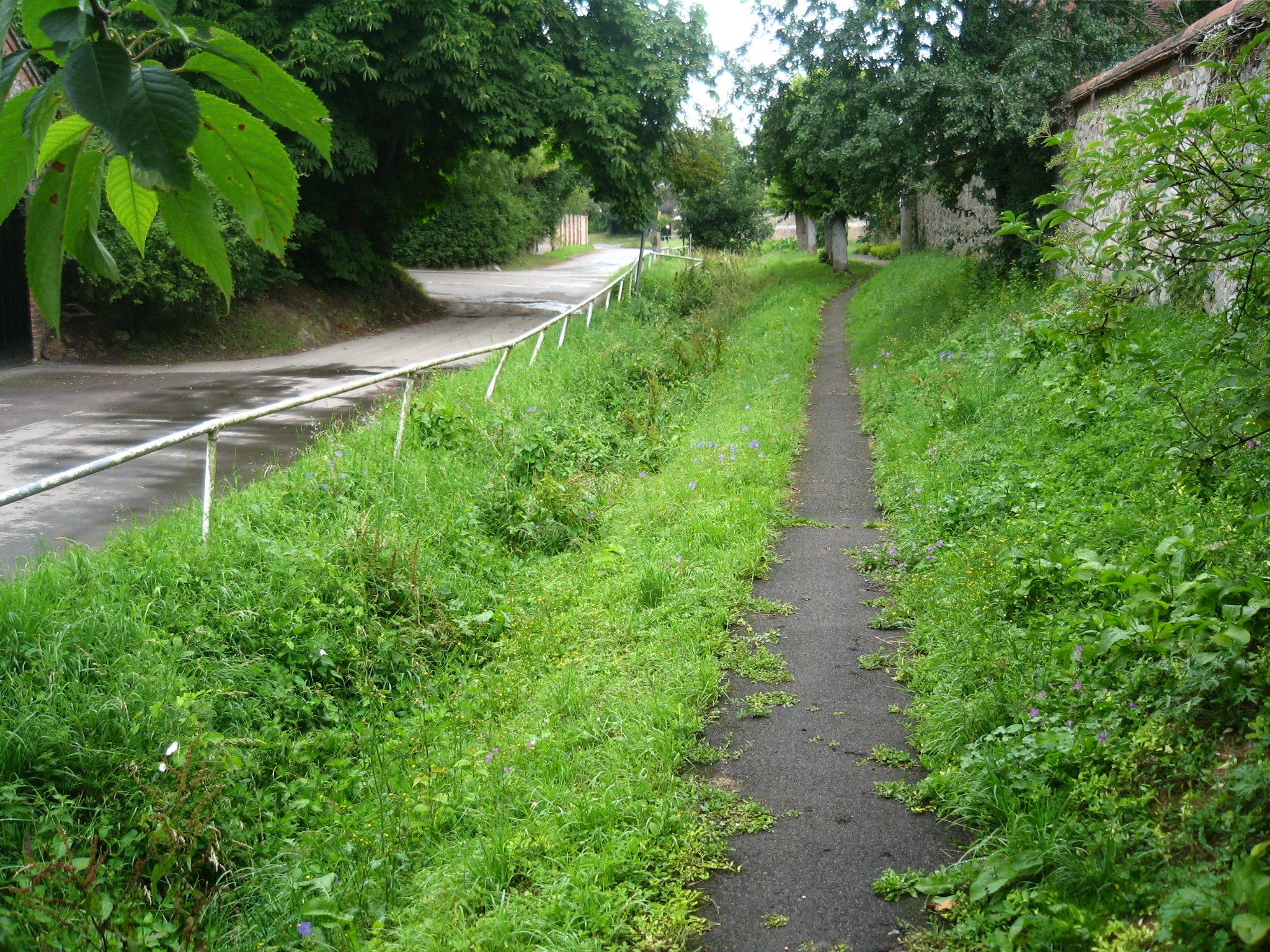 River lambourn (overgrown with weeds) on the Fulke Walwyn Way, Upper Lambourn, Berkshire